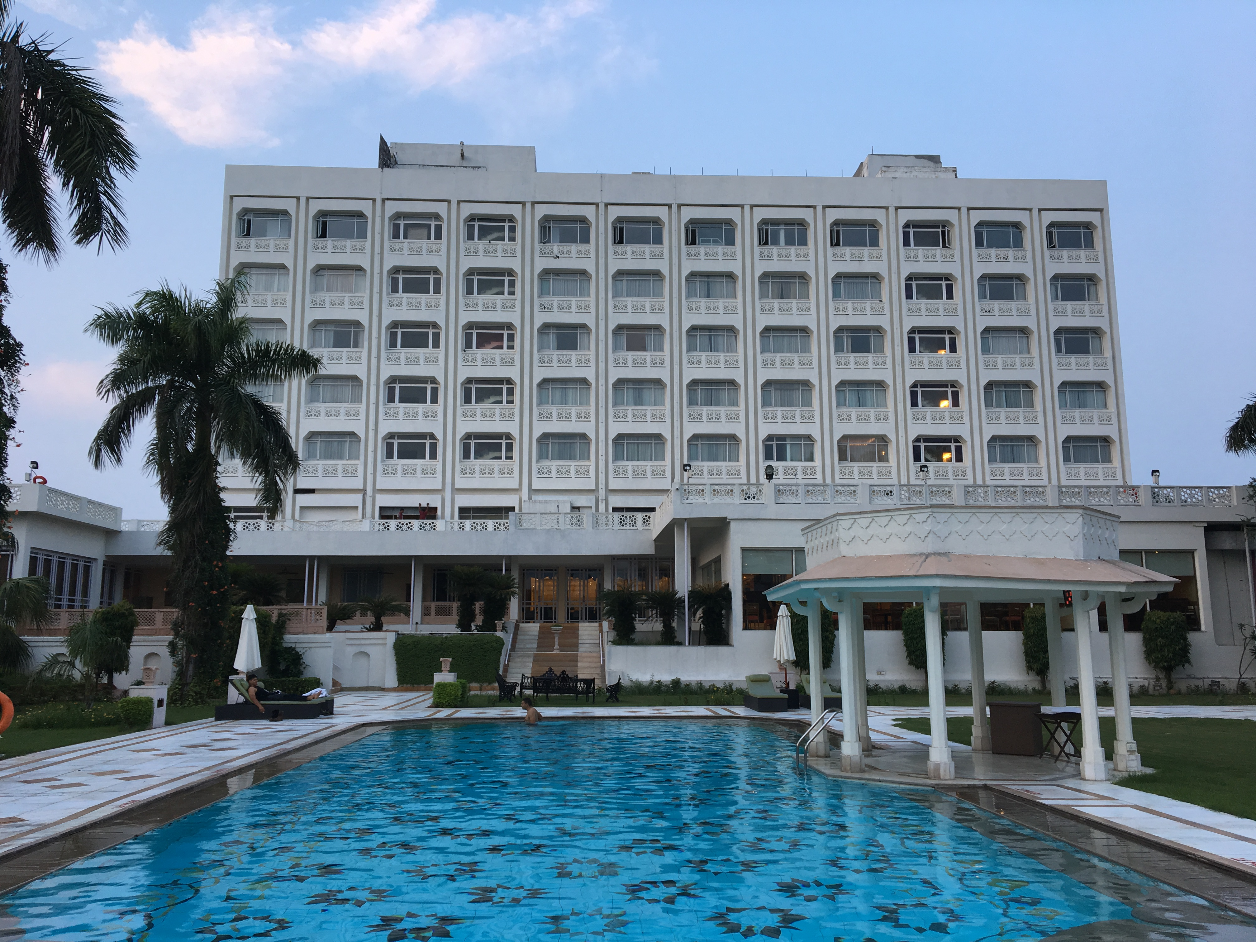 Poolside of Tajview hotel, Agra.